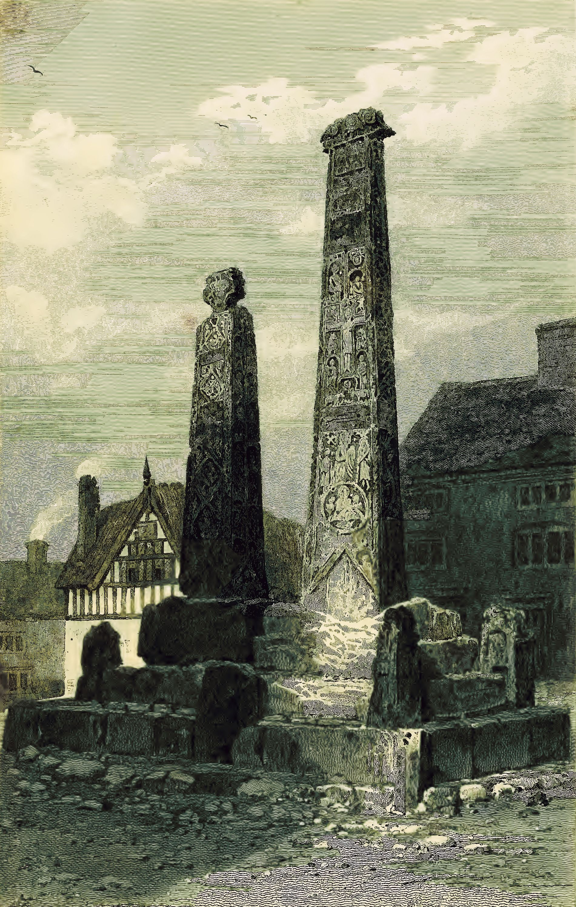 Sandbach Crosses, caption notes: Published London July 1, 1818 by Lackington Ltd, engraving credited to Peter De Wint and William Woolnoth (1785-c1836)